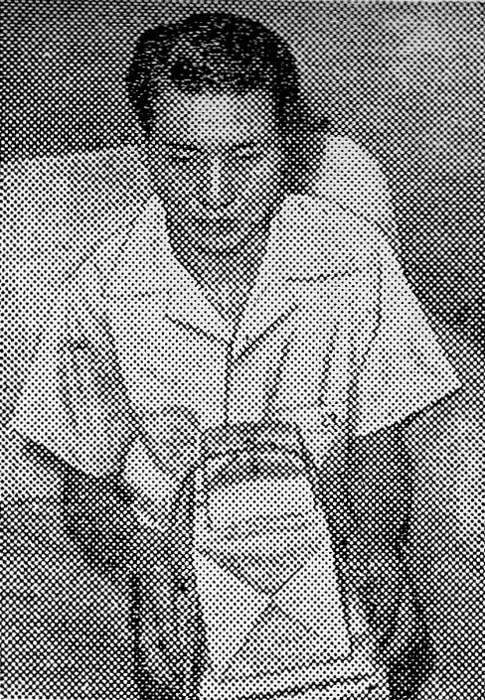 Wakaba, Kiyonari (he was the songwriter of the anthem of Aichi prefecture "Wareraga Aichi").